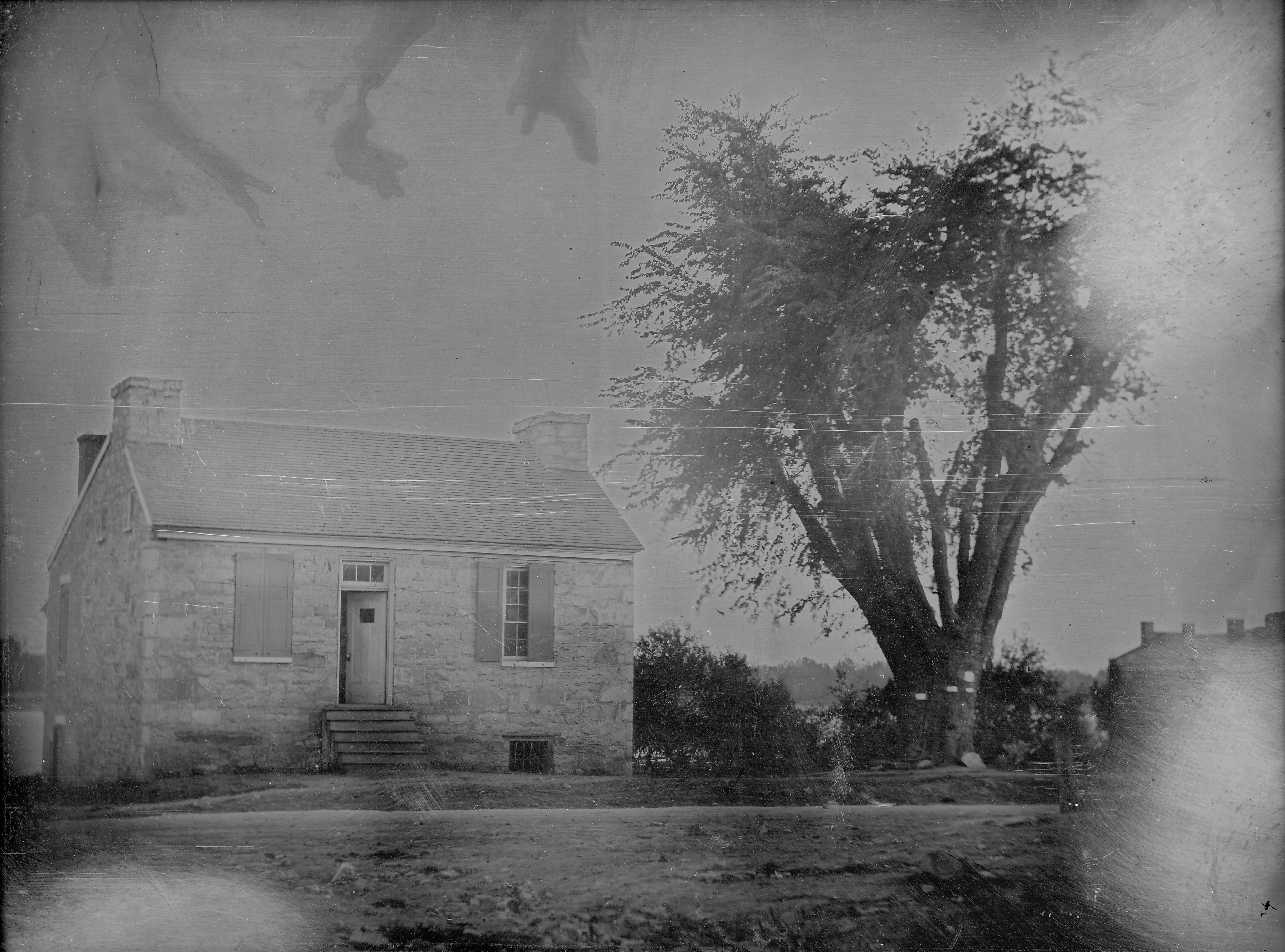 View of the Carondelet Court House. Title: Carondelet Court House.